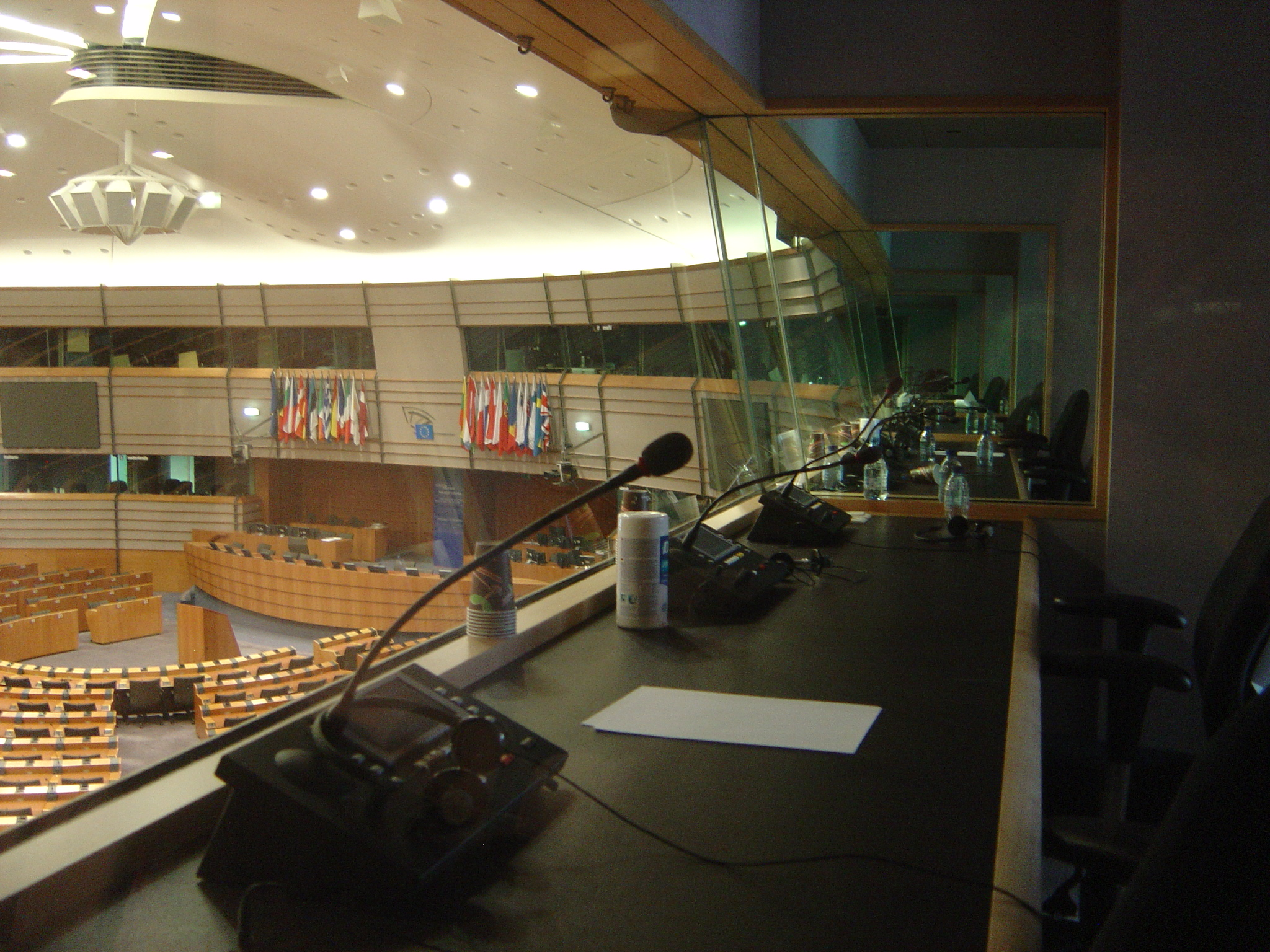 Interpretation booth of the European Parliament in Brussels